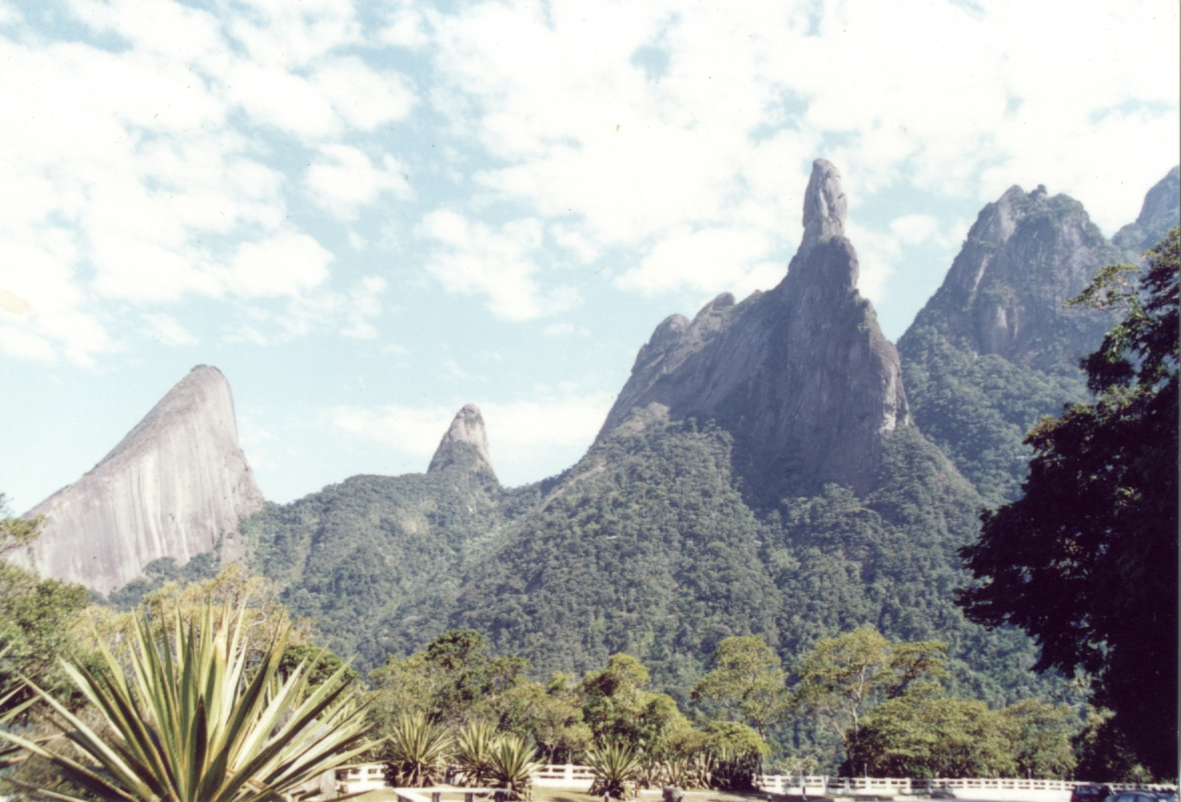 Dedo de Deus mountain (God's finger) — as seen from Teresopolis, Rio de Janeiro state, Brasil. This mountain is situated in Guapimirim county. A view of gnaissic pre-cambrian mountain.